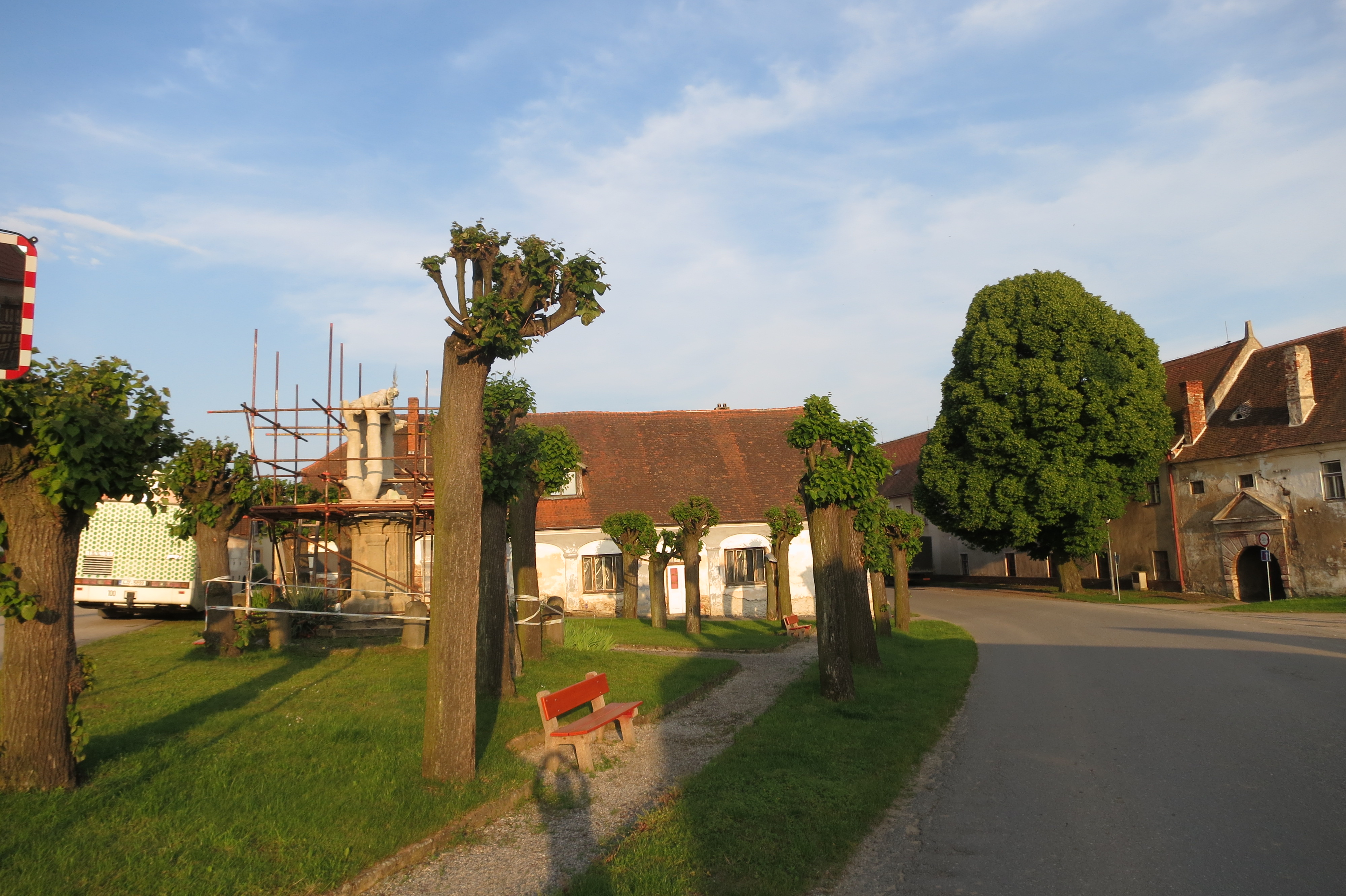 Center of Police, Třebíč District.